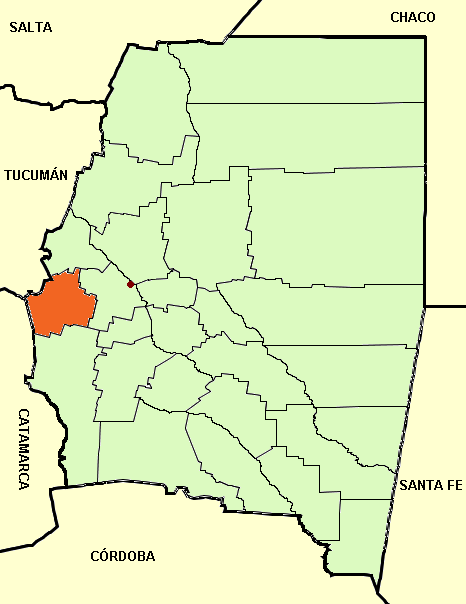 Map of Santiago del Estero province with Guasayán Department highlighted